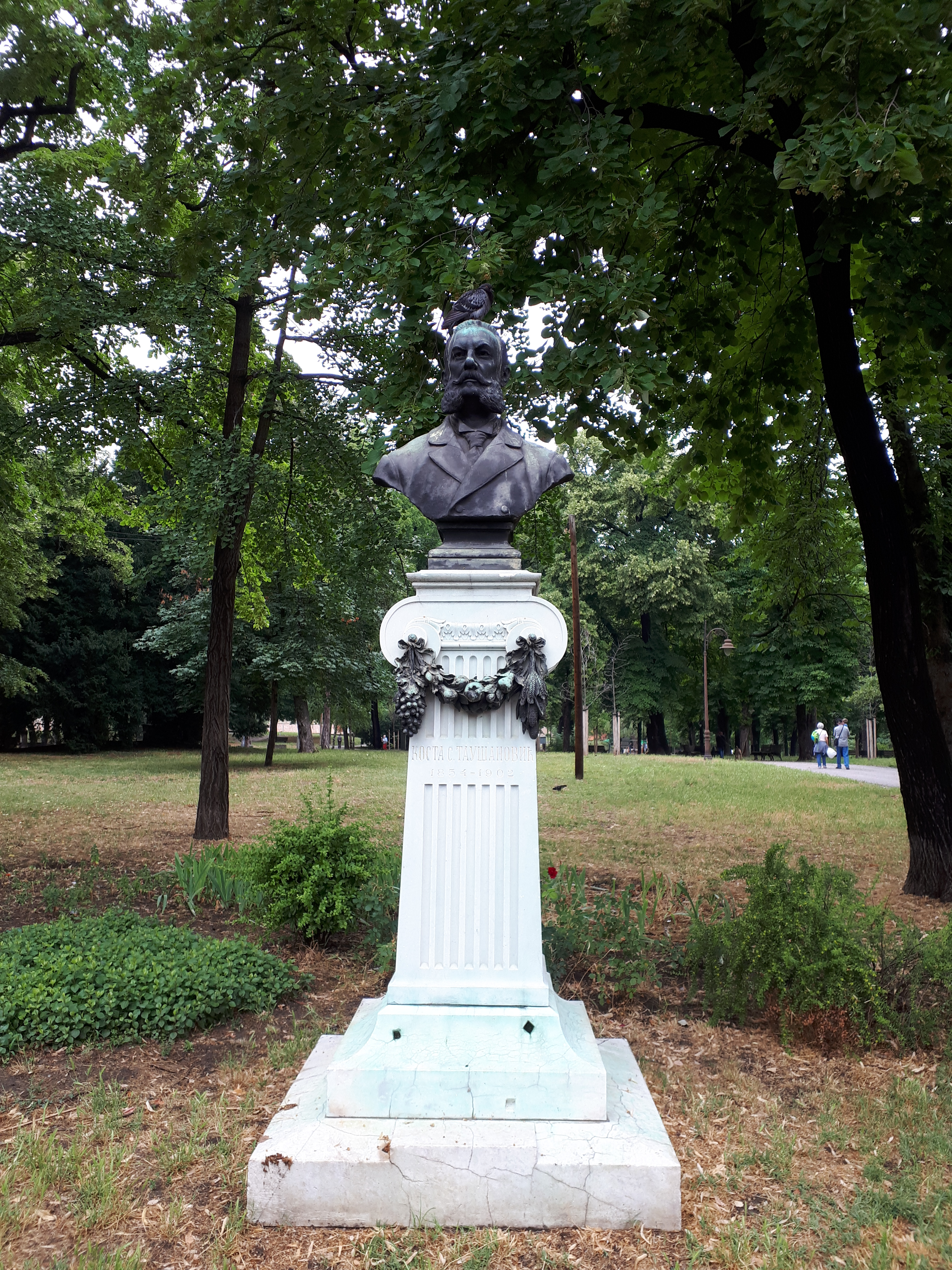 The bust of Kosta Tausanovic in Belgrade Kalemegdan Park